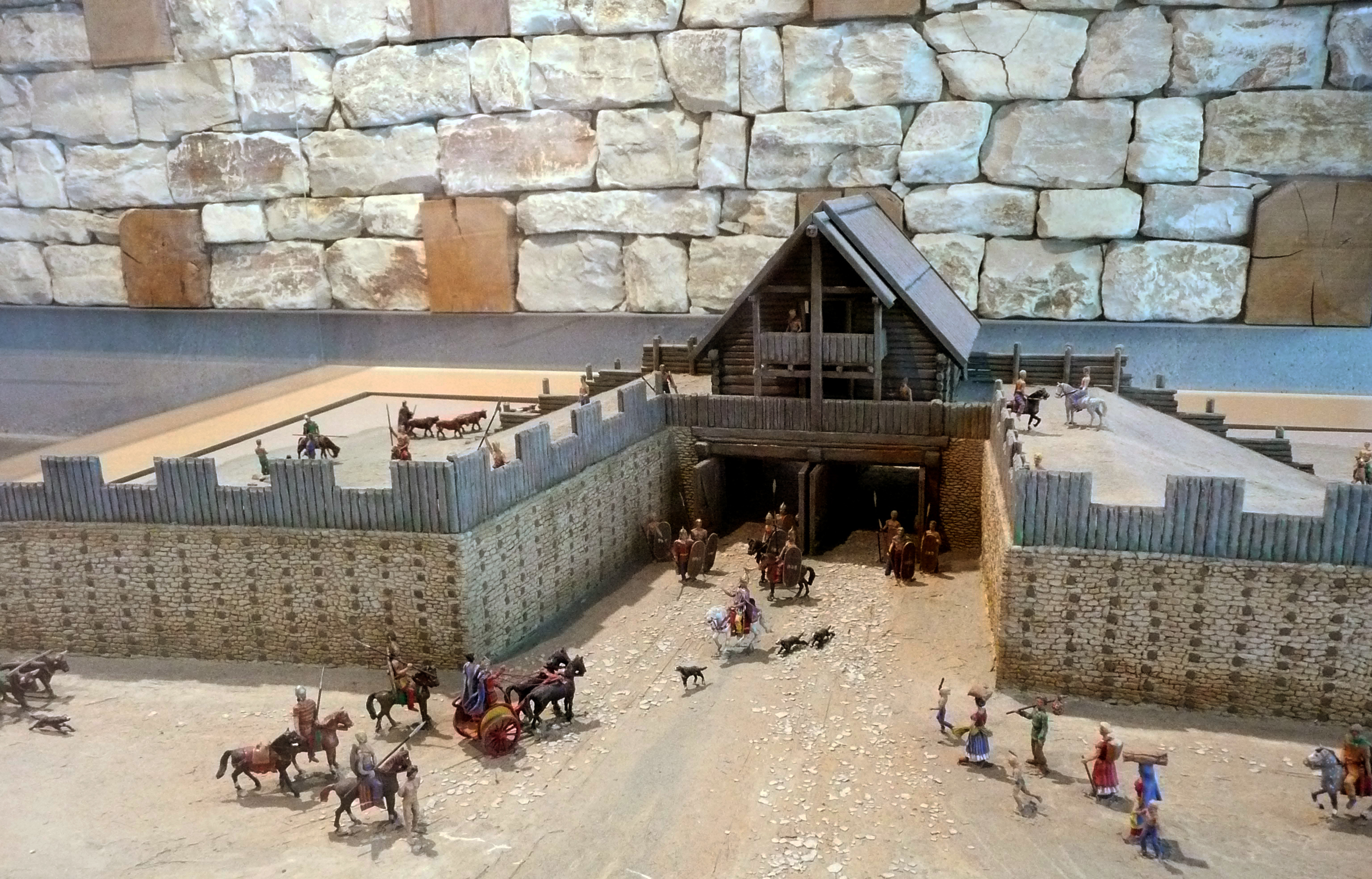 Model of the Eastern gate of the celtic Oppidum of Manching (130 BC) in the kelten römer museum manching. Scale 1:50. In the background a reconstruction of the ca. 4 m high wall (murus gallicus).